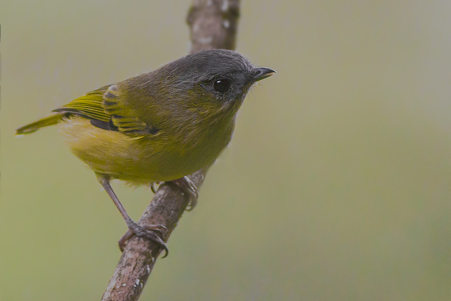 The species Green Shrike Babbler had been photographed at Khangchendzonga National Park in West Sikkim, Sikkim, India during GoingWild's birding trip on 30.10.2015.